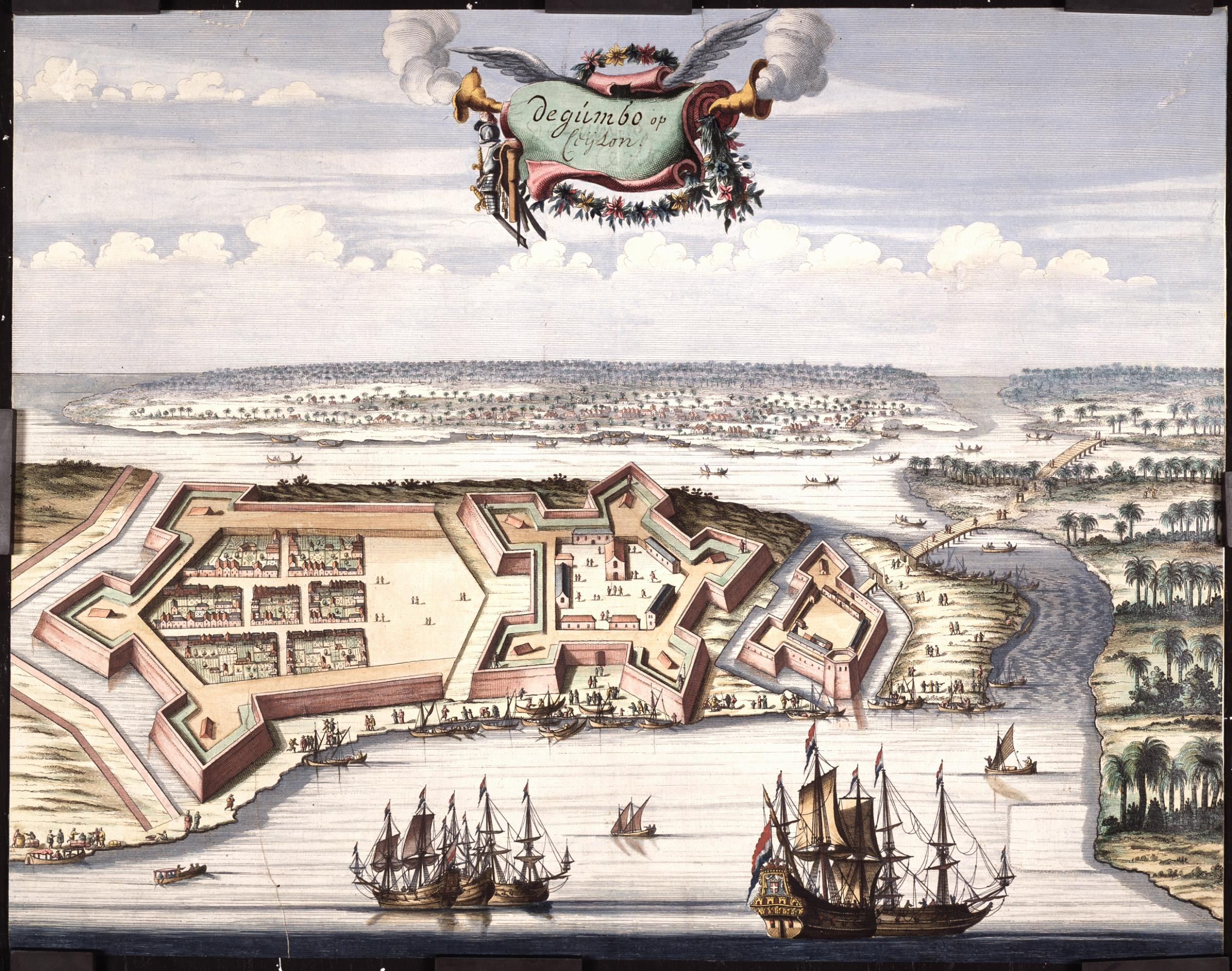 Title in the Leupe catalogue (NA): Gezicht in vogelvlucht op Negombo van de zeezijde. The same copper etching also occurs in Baldaeus, 'Beschrijving van Ceylon', Amst. 1672, page 144. The picture shows a fort in the centre, surrounded by water. Cf. Koninklijke Bibliotheek, inv. nr. 189 A 6, part II, after p. 144.